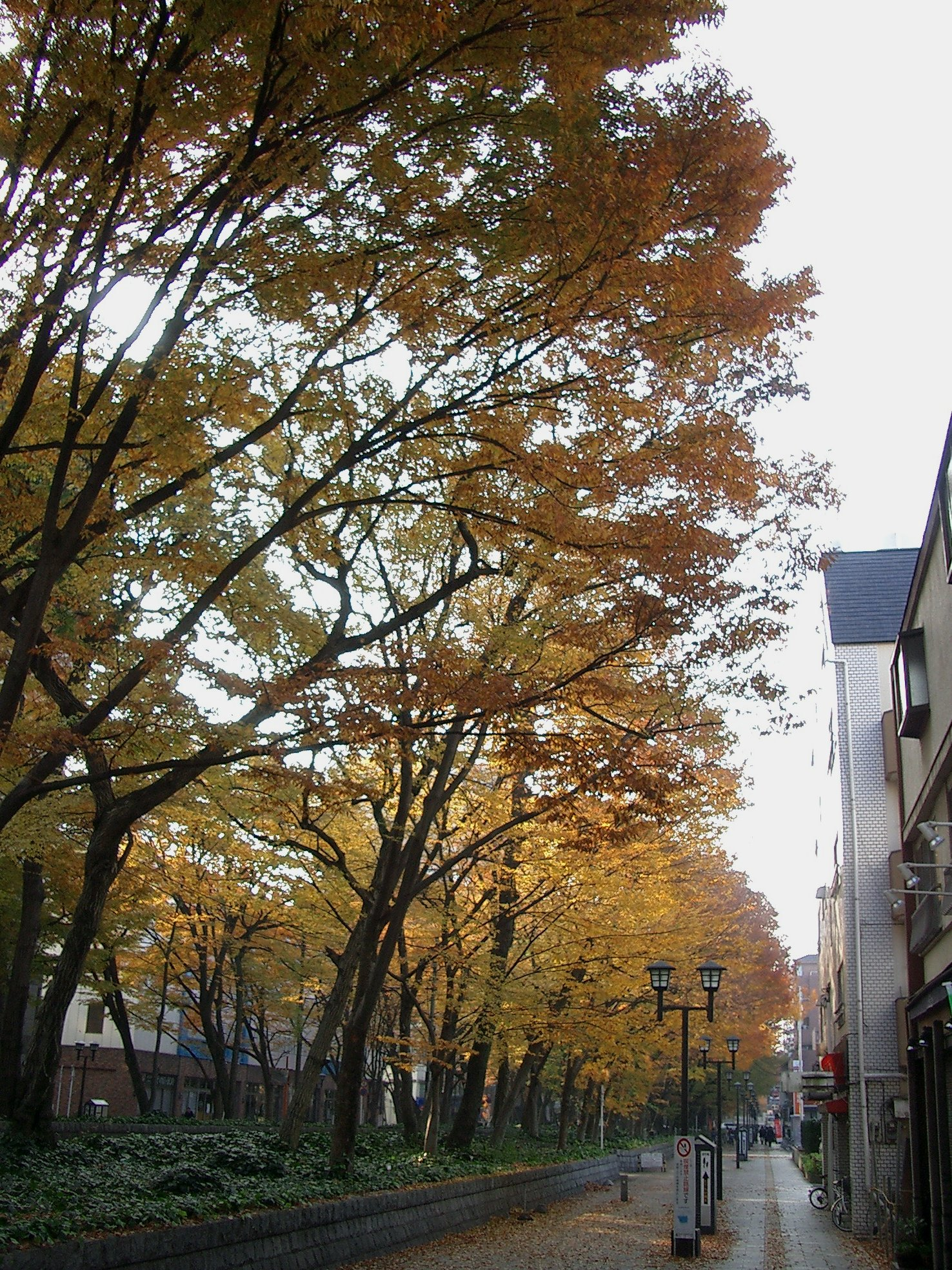 The north part of Baba Daimon Keyaki Namiki (Sideway). ja: 馬場大門欅並木の歩道